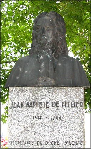 Jean-Baptiste de Tillier, historian, 1678-1744